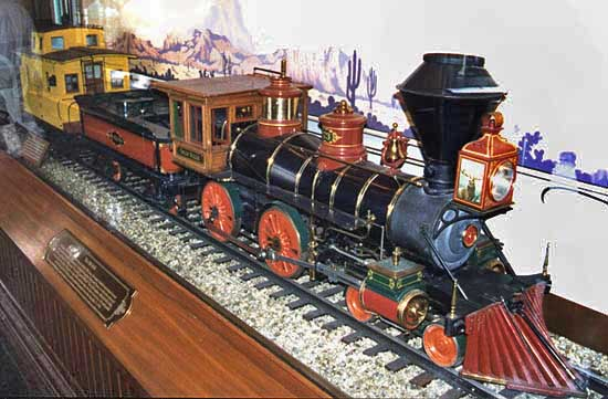 The "Lilly Belle" engine on display at Disneyland Main Station in 1993. Featured on Portal:Trains/Featured picture/Week 41, 2006